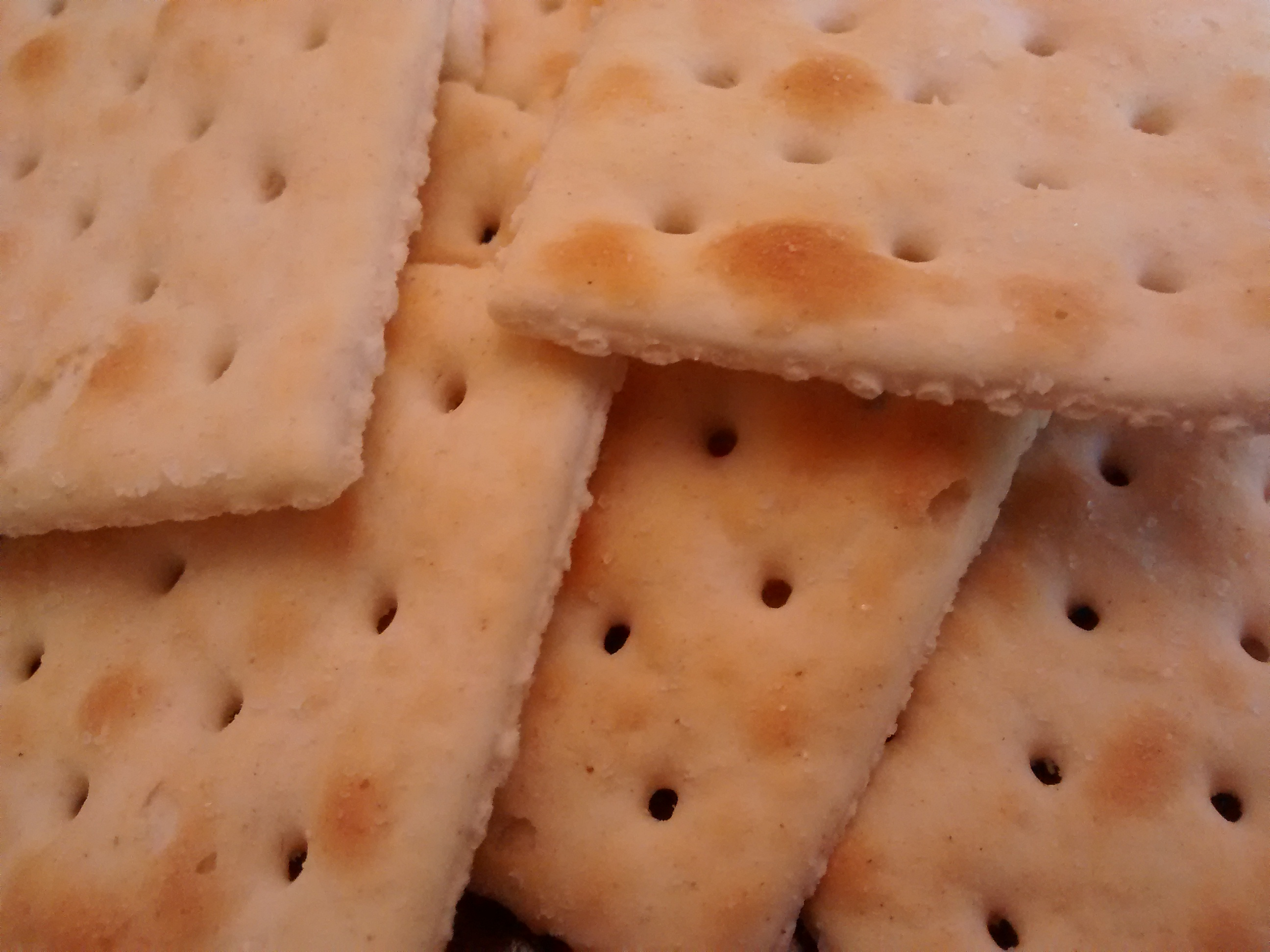 Nabisco Original Premium Saltines, topped with sea salt.